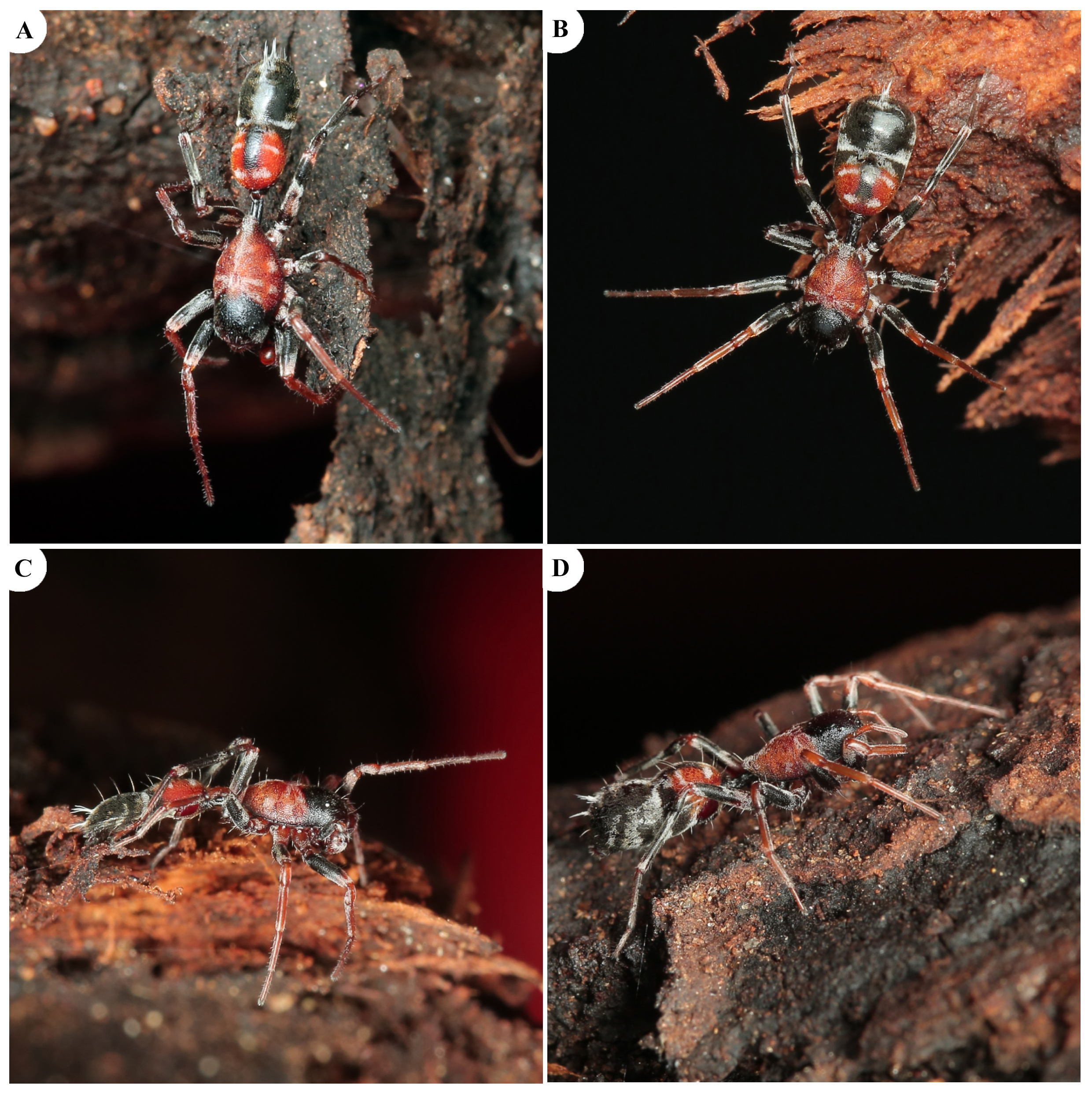 Aetius decollatus- A- male, B- female, C- male, lateral, D- female, lateral